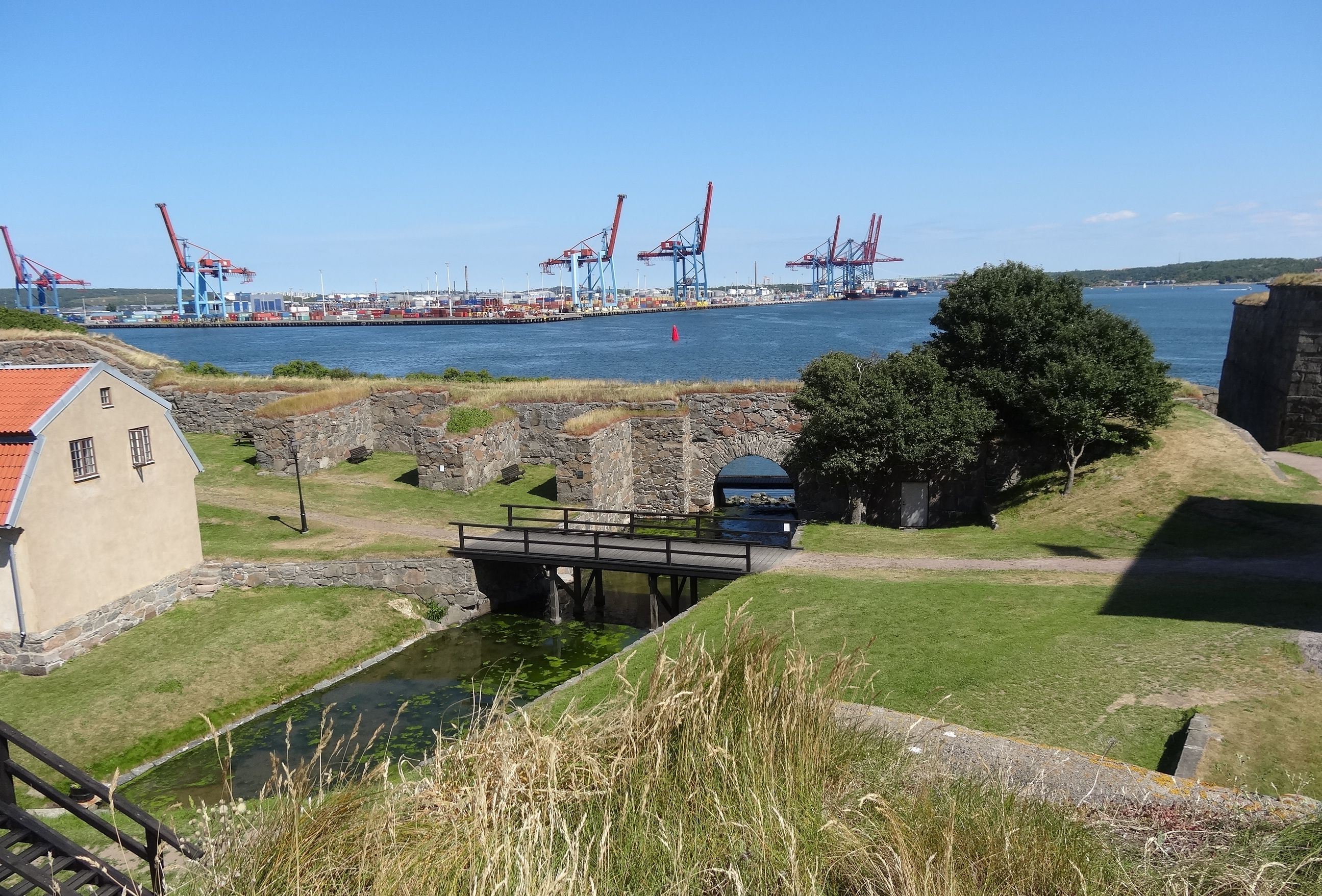 View over the inner harbour at fortress Nya Älvsborg, Sweden. In the background the Gothenburg harbour containerterminal - Skandiahamnen.